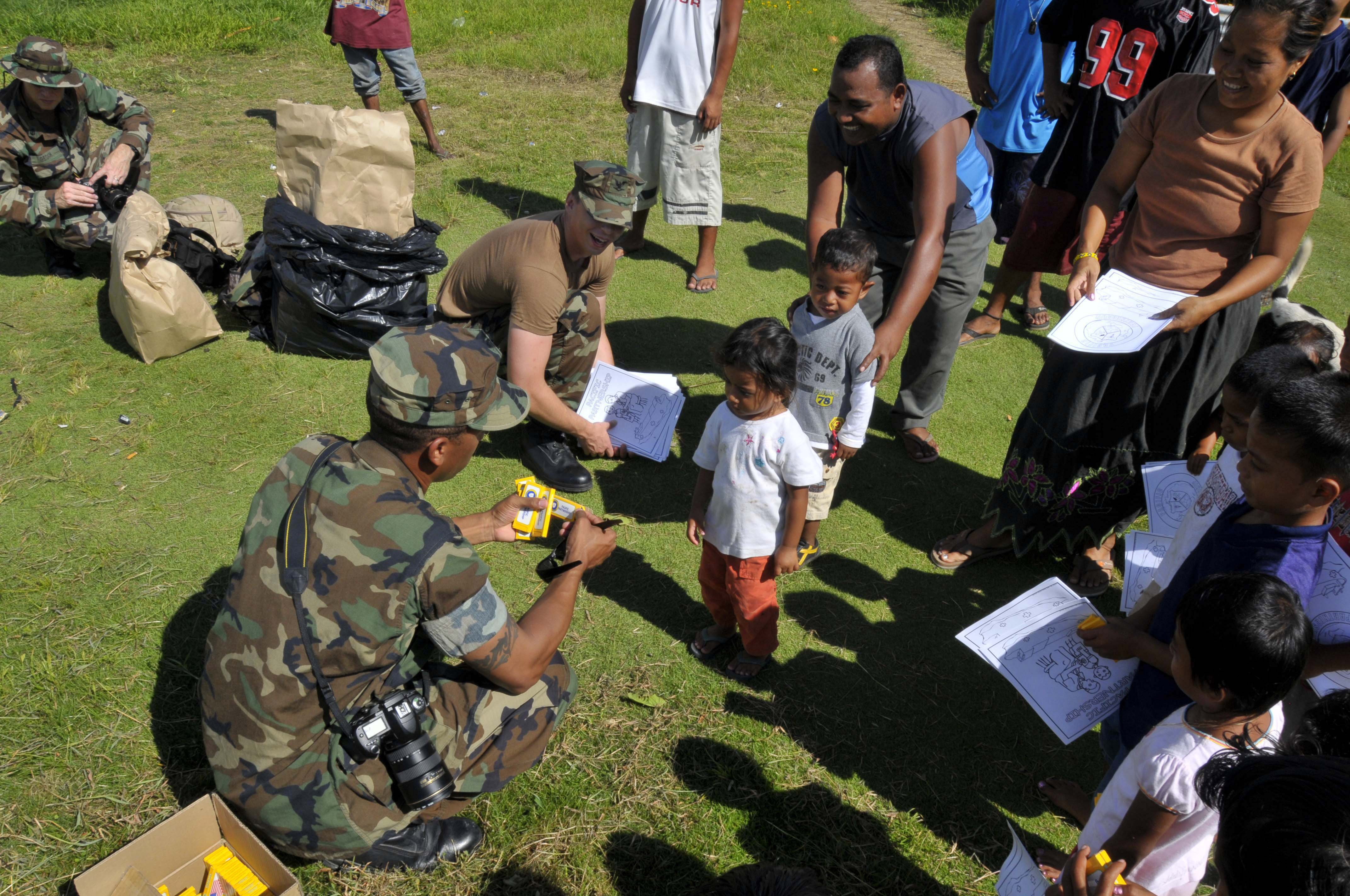 CHUUK, Federated States of Micronesia (Aug. 29, 2008) Mass Communication Specialist 1st Class Danny Hayes, right, from San Diego, Calif., and Mass Communication Specialist 3rd Class Derek Sanchez, from Albuquerque, N.M., pass out crayons, coloring books, Frisbees and soccer balls as part of a community relations project on Udot Island of for Pacific Partnership 2008. Pacific Partnership in support of and in cooperation with the government of the Federated States of Micronesia, partner nations including representatives from India and Canada and many non-governmental organizations. (U.S. Navy photo by Mass Communication Specialist 2nd Class Joseph Seavey/Released)